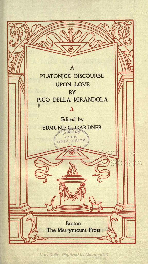 Title page from "The Platonick Discourse" by Pico della Mirandola printed by Merrymount Press about 1914.